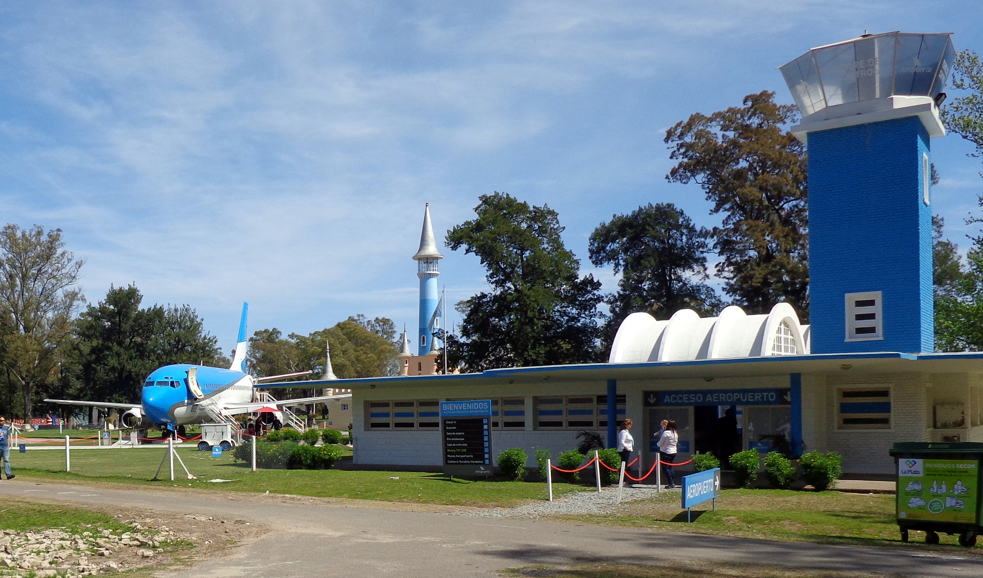 The Republic of Children, Gonnet, La Plata, Buenos Aires province, Argentina.